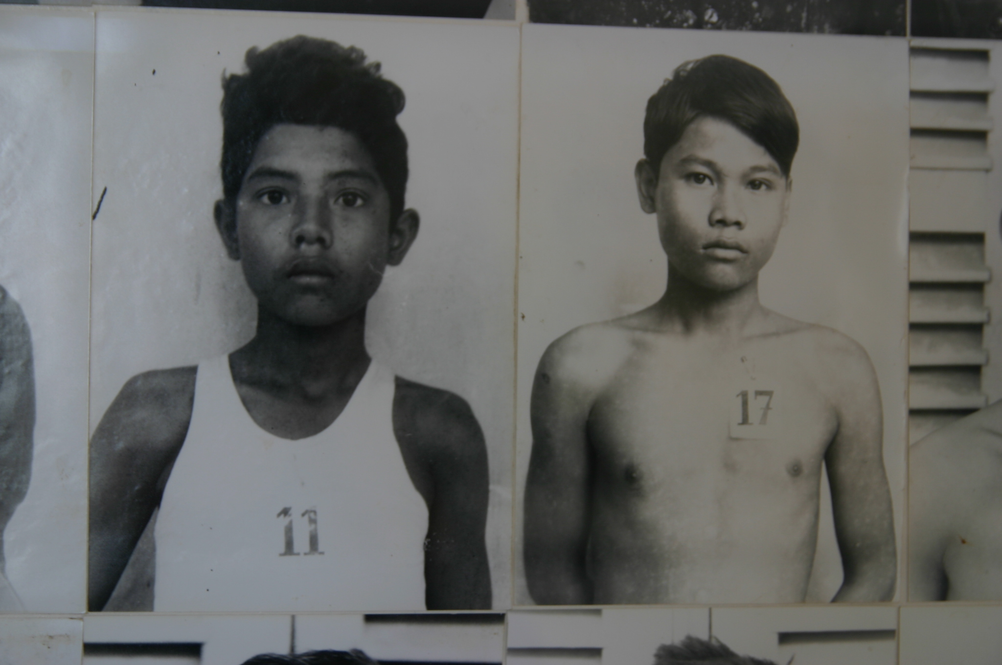 Two victims of S-21